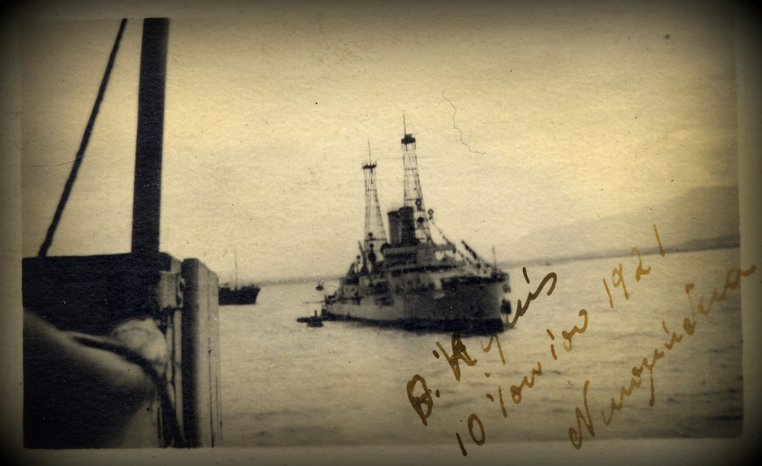 Greek battleship “Kilkis” in Nicomidia, June 10, 1921Türkçe: İzmit'te Yunan savaş gemisi “Kilkis”, 10 Haziran 1921